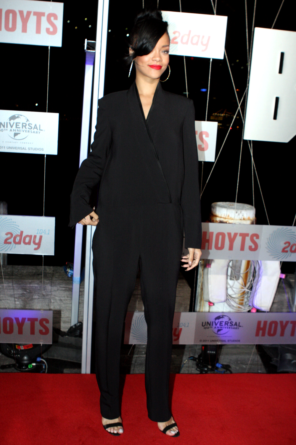 BATTLESHIP stars berth at Sydney; Luna Park; Taylor Kitsch, Rihanna, Brooklyn Decker, director Peter Berg